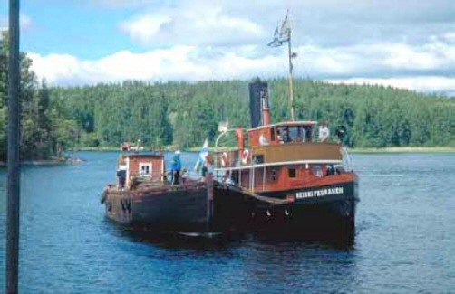 Finnish steamboat "Heikki Peuranen" and the barge "Enea".